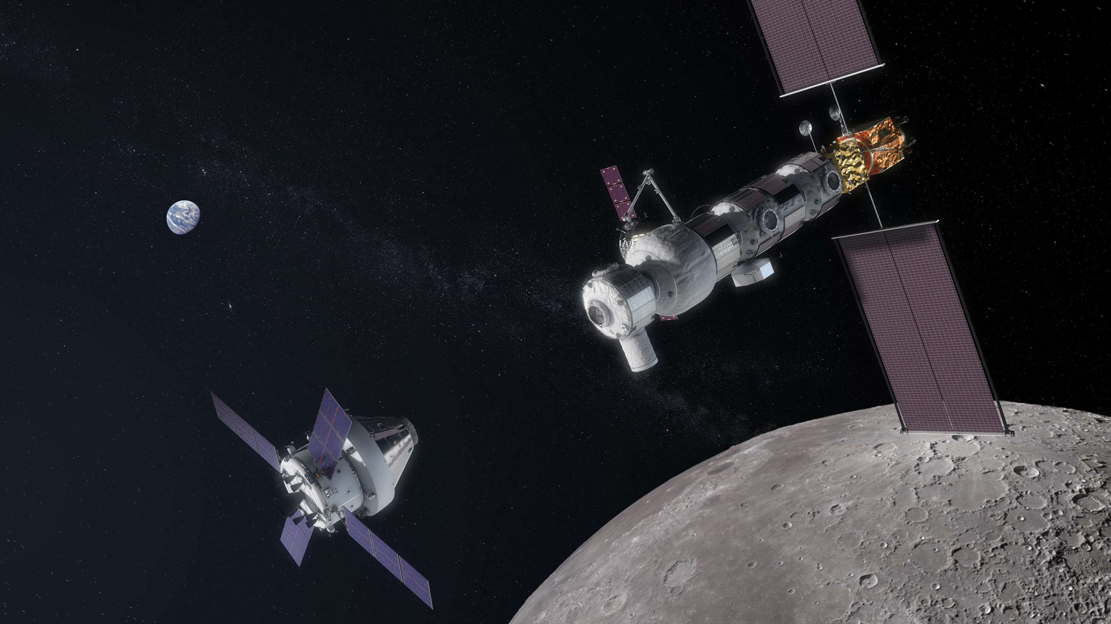 Lunar Orbital Platform-Gateway with approaching Orion spacecraft The Gateway Objectives NASA shall establish a Gateway to enable a sustained presence around and on the Moon and to develop and deploy critical infrastructure required for operations on the lunar surface and at other deep space destinations. – The Gateway shall be utilized to enable human crewed missions to cislunar space including capabilities that enable surface missions. (Crewed Missions) – The Gateway shall provide capabilities to meet scientific requirements for lunar discovery and exploration, as well as other science objectives. (Science Requirements) – The Gateway shall be utilized to enable, demonstrate and prove technologies that are enabling for Lunar missions and that feed forward to Mars as well as other deep space destinations. (Proving Ground & Technology Demonstration) – NASA shall establish industry and international partnerships to develop and operate the Gateway. (Partnerships)